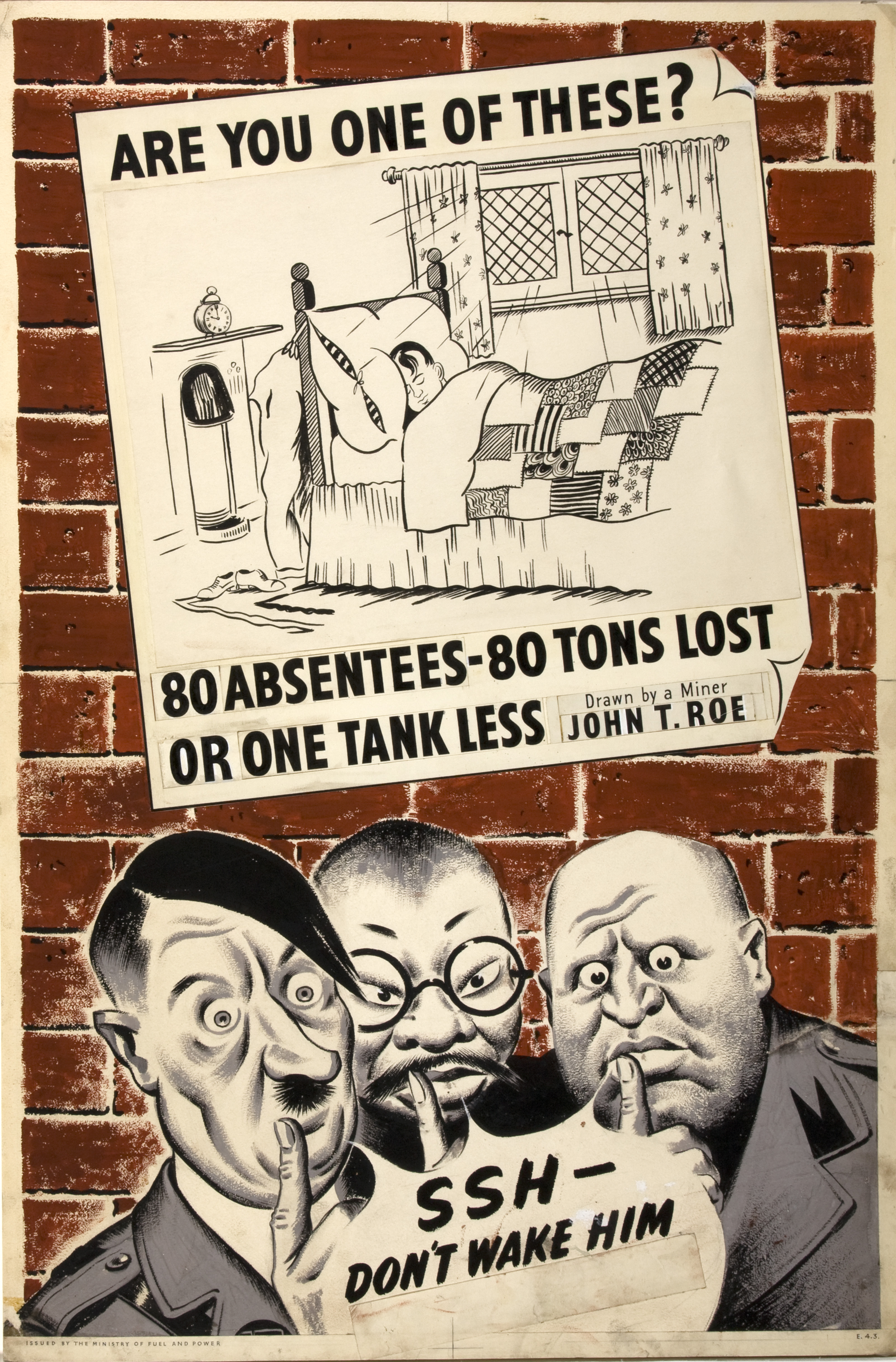 Are you one of these? 80 Absentees - 80 tons lost or one tank less